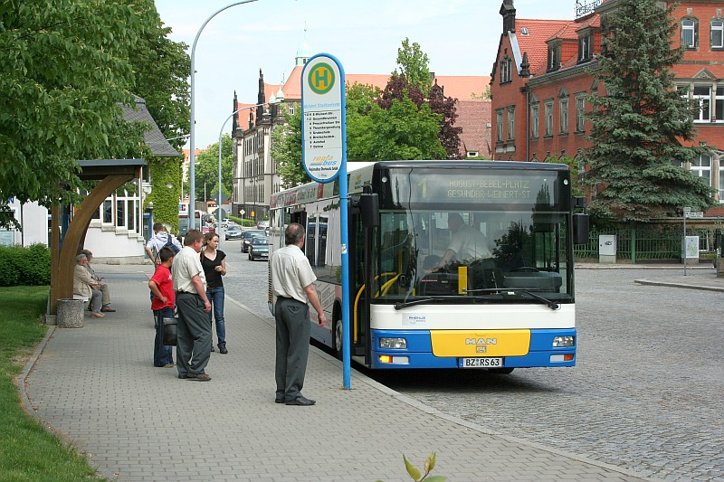 MAN NL 313 city bus (#63) in Bautzen, Germany. Built 2003.